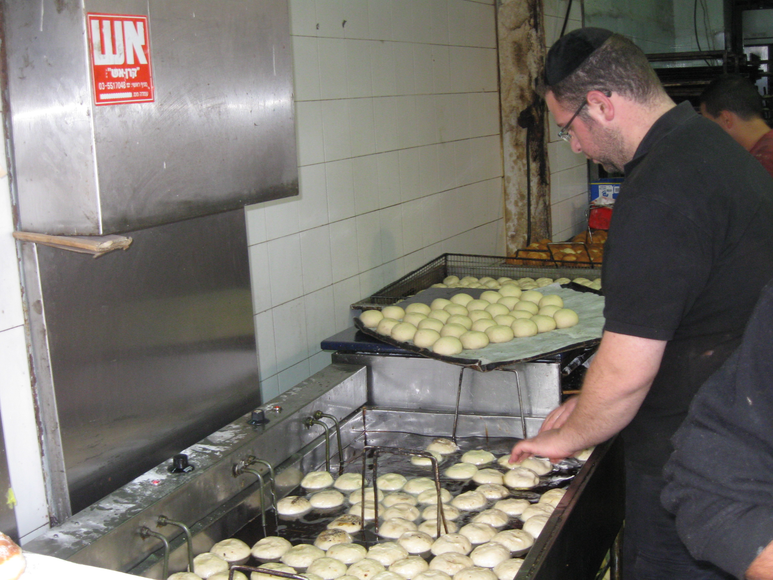 A baker deep-fries sufganiyot at the Mahane Yehuda Market (shuk) during Hanukkah.